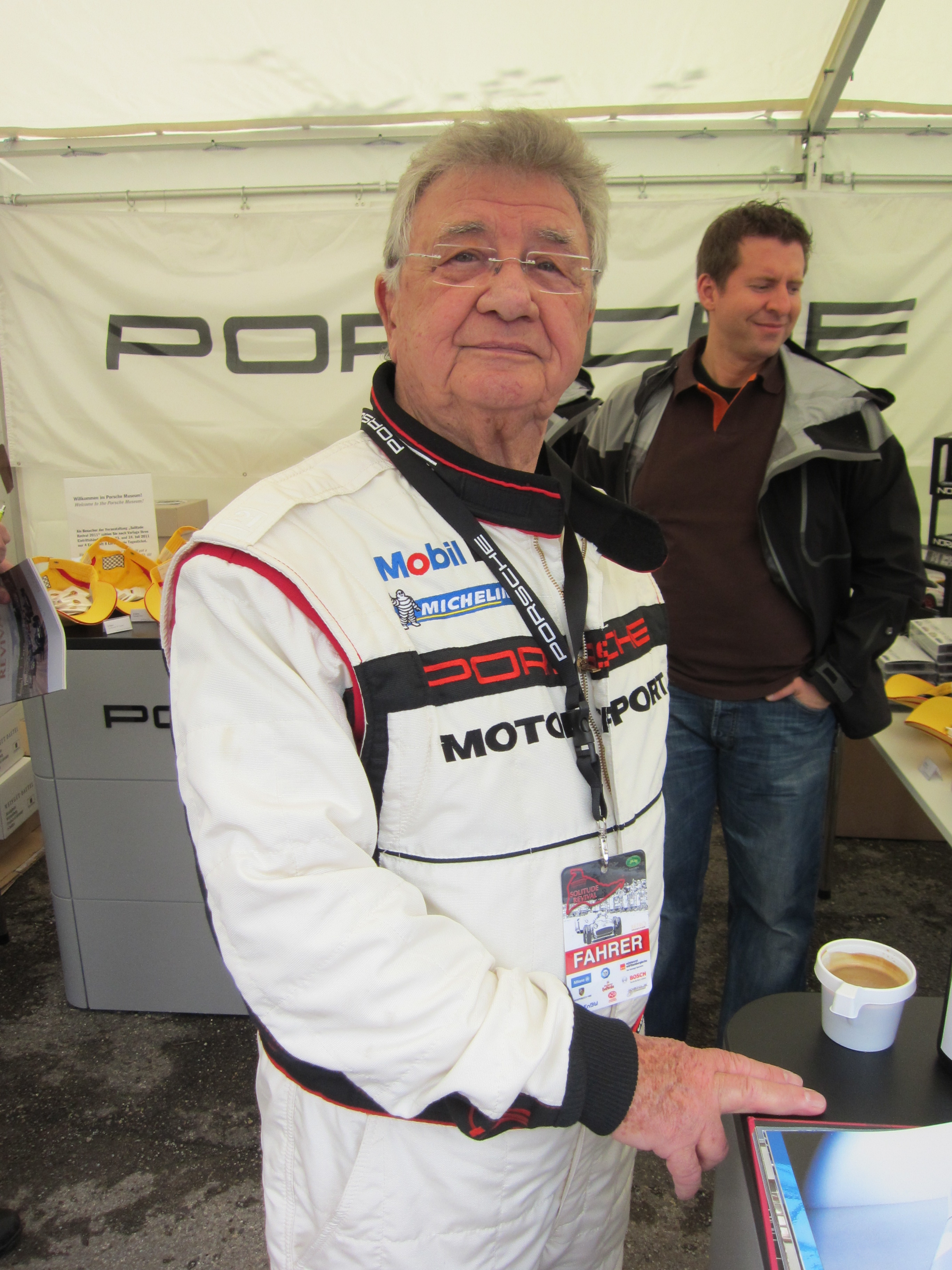 Hans Herrmann: the photo was taken during 2011's Solitude Revival